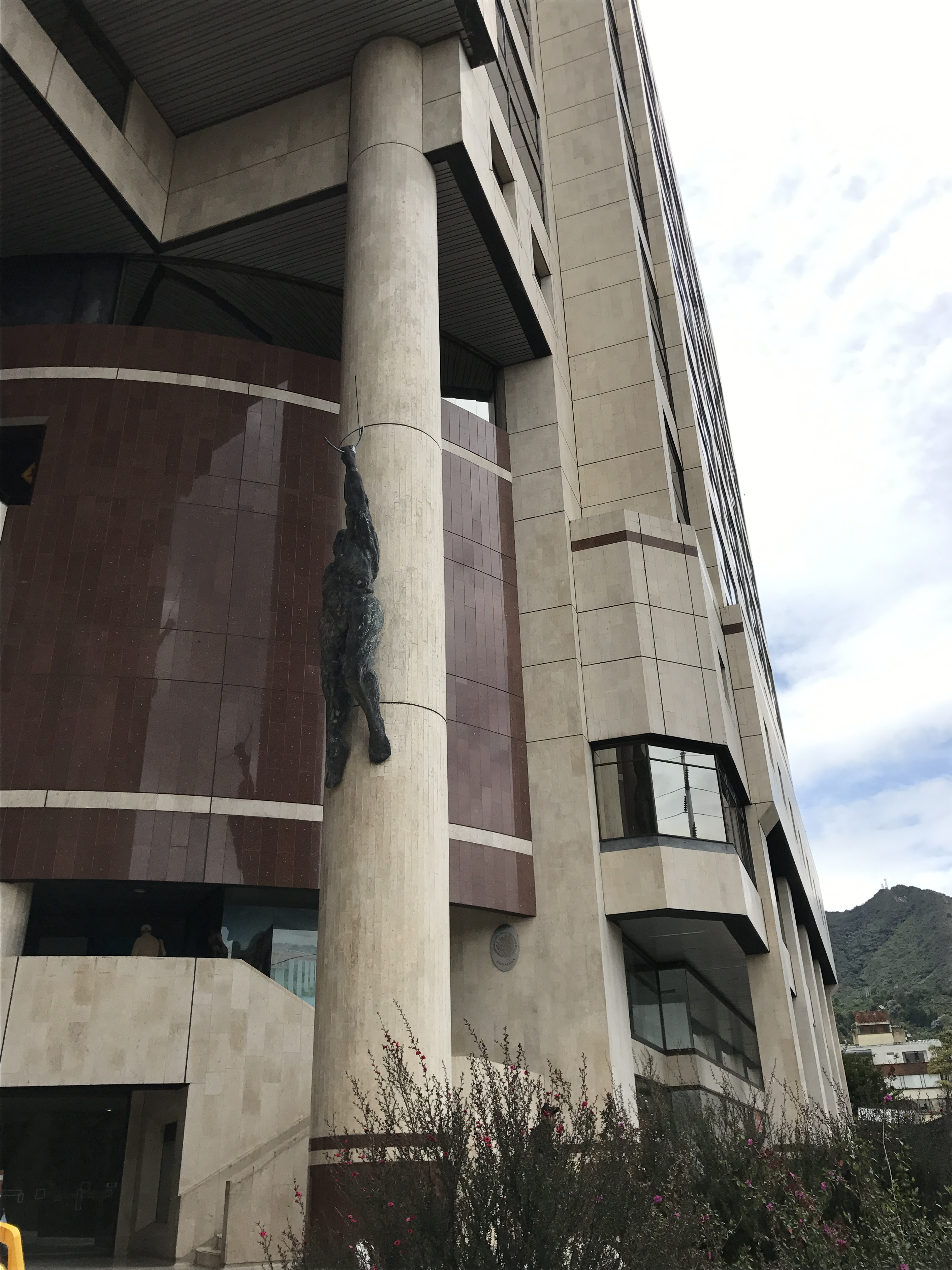 Embassy of Mexico in Bogota, Colombia